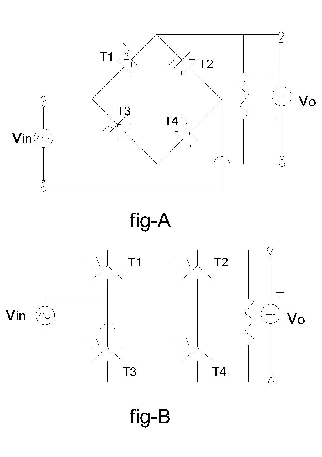 bridgerect(controlled